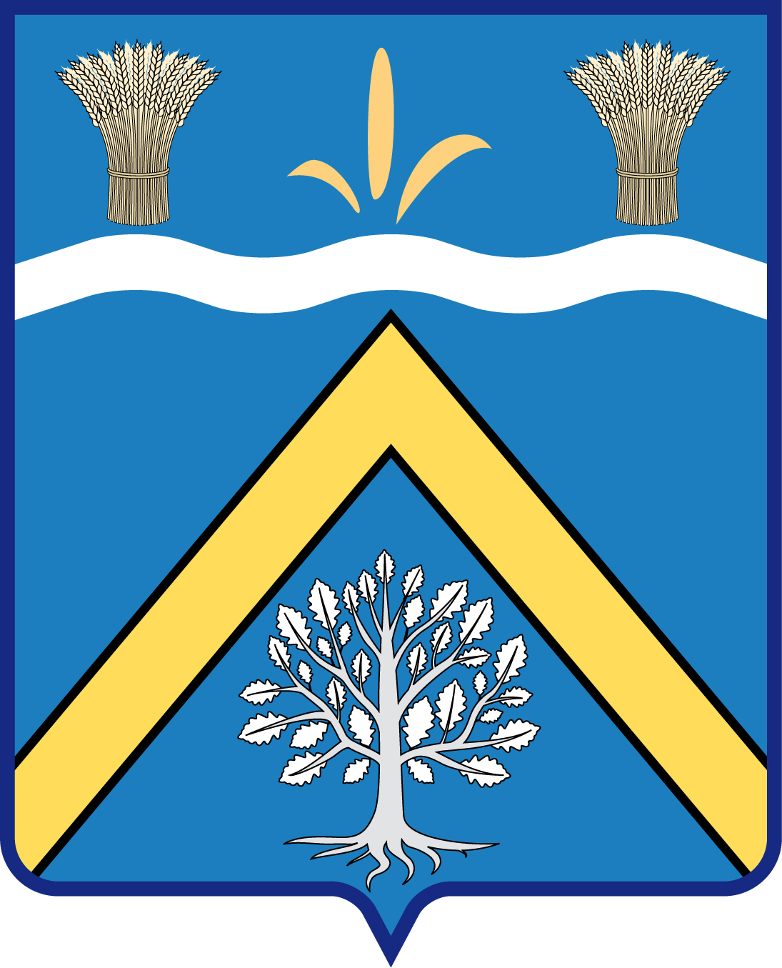 Coat of arms of Village of Bazoches sur le Betz, Loiret, France